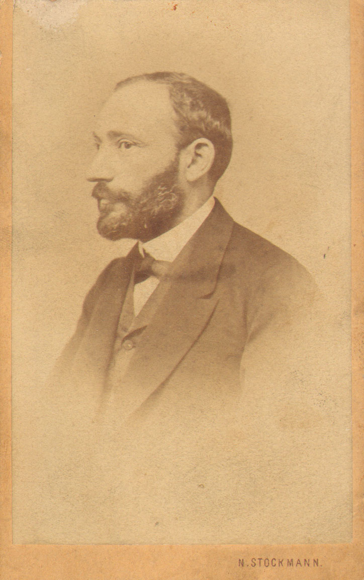 Photograph of Nikola Krstić (1829-1902), Serbian historian and lawyer (Vienna, 1850-1860). Srpski (latinica): Fotografija Nikole Krstića (1829-1902), istoričara i pravnika (Beč, 1850-1860).